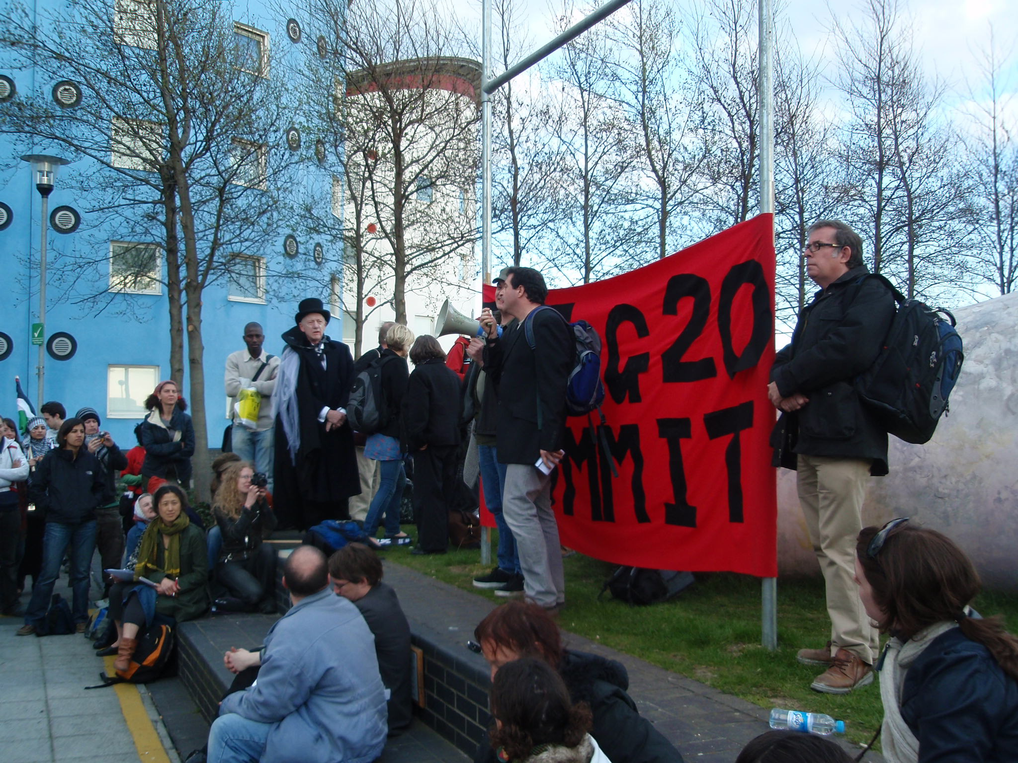 Alternative London Summit, Mark Thomas, 2009